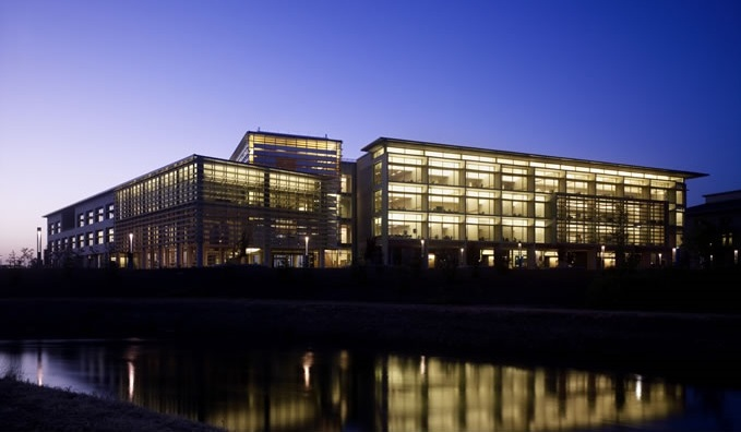 Kolligan library